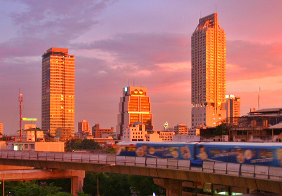 Skyline of Bangkok. In the middle is United Overseas Bank headquarters (formerly the Bank of Thailand headquarters, and commonly known as the Robot Building).